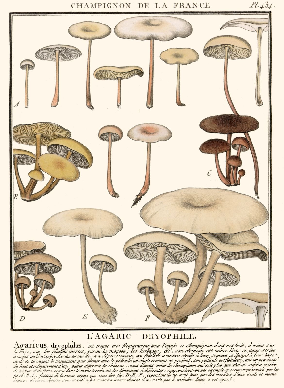 [Translation of the caption] Agaricus dryophilus is found very frequently all year in our woods; it grows on soil, on dead leaves, amongst moss, grass etc.; its cap is thin, smooth, and without striation at least until it approaches the end of its process of decay; the gills are very narrow at the outside and thickened at the base where they terminate suddenly to meet the stipe higher up forming a deep concavity; the stipe is tubular, a bit expanded at the top and normally of a different colour from the cap ... we have no other mushroom more subject to variations in colour and form than this one, nor with such differences in dimensions in the same locality. One might doubt, for example, that the specimens marked A., B., C. in the illustration were the same species as those marked D., E., F.; nevertheless they are all only varieties of one and the same species, and if one regards attentively the intermediate gradations in form, there can be no question about this.